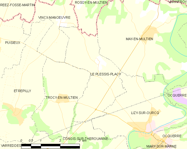 Map of French municipality Le Plessis-Placy